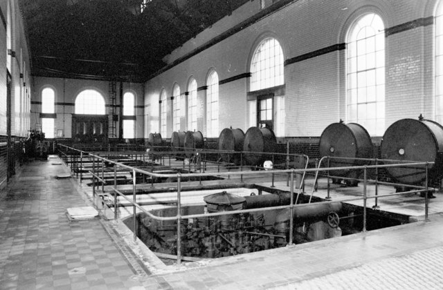 King George V Pumping Station Originally contained five Humphrey pumps working on producer gas. Now disused with three in situ.